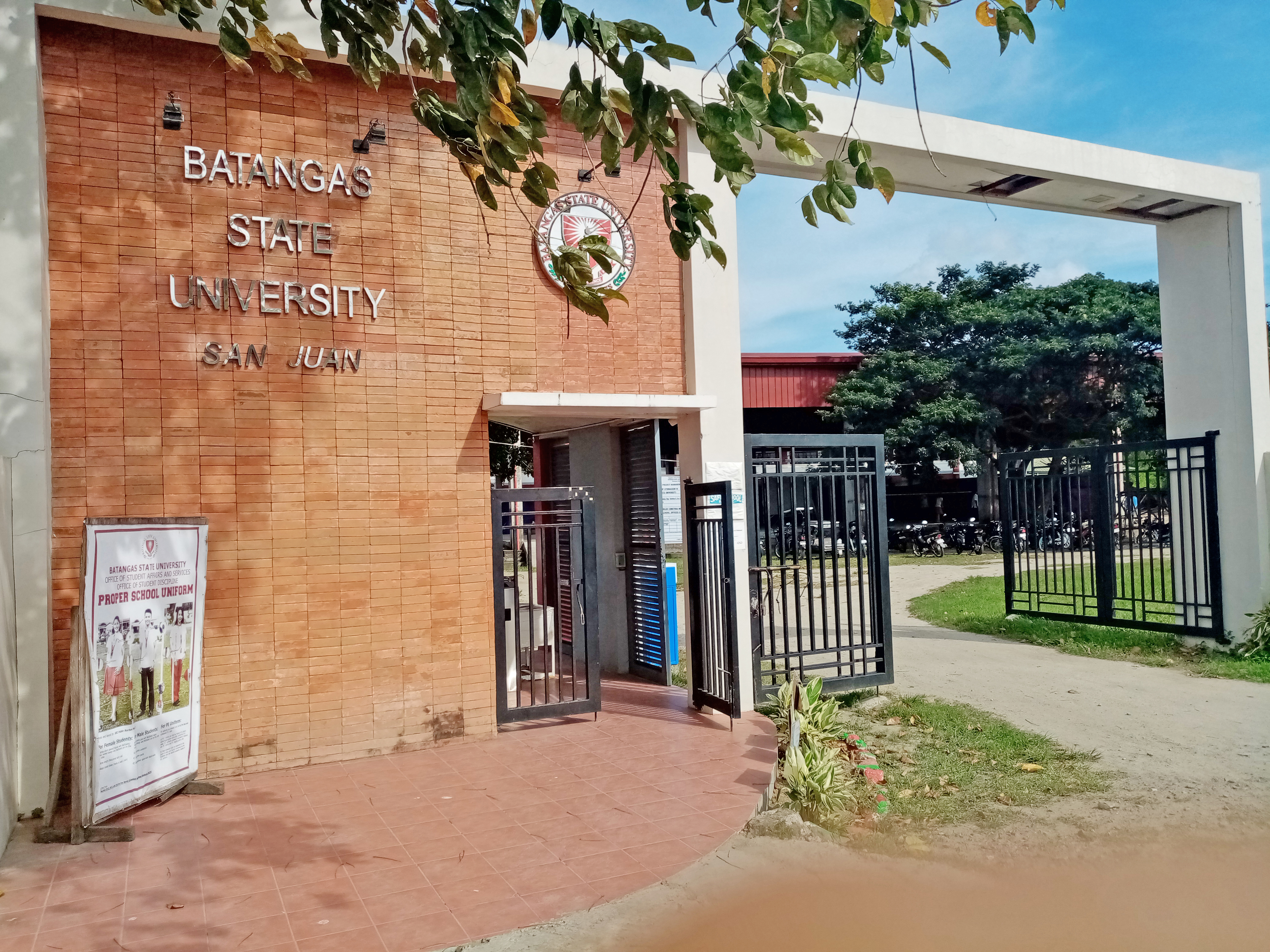 BatStateU San Juan